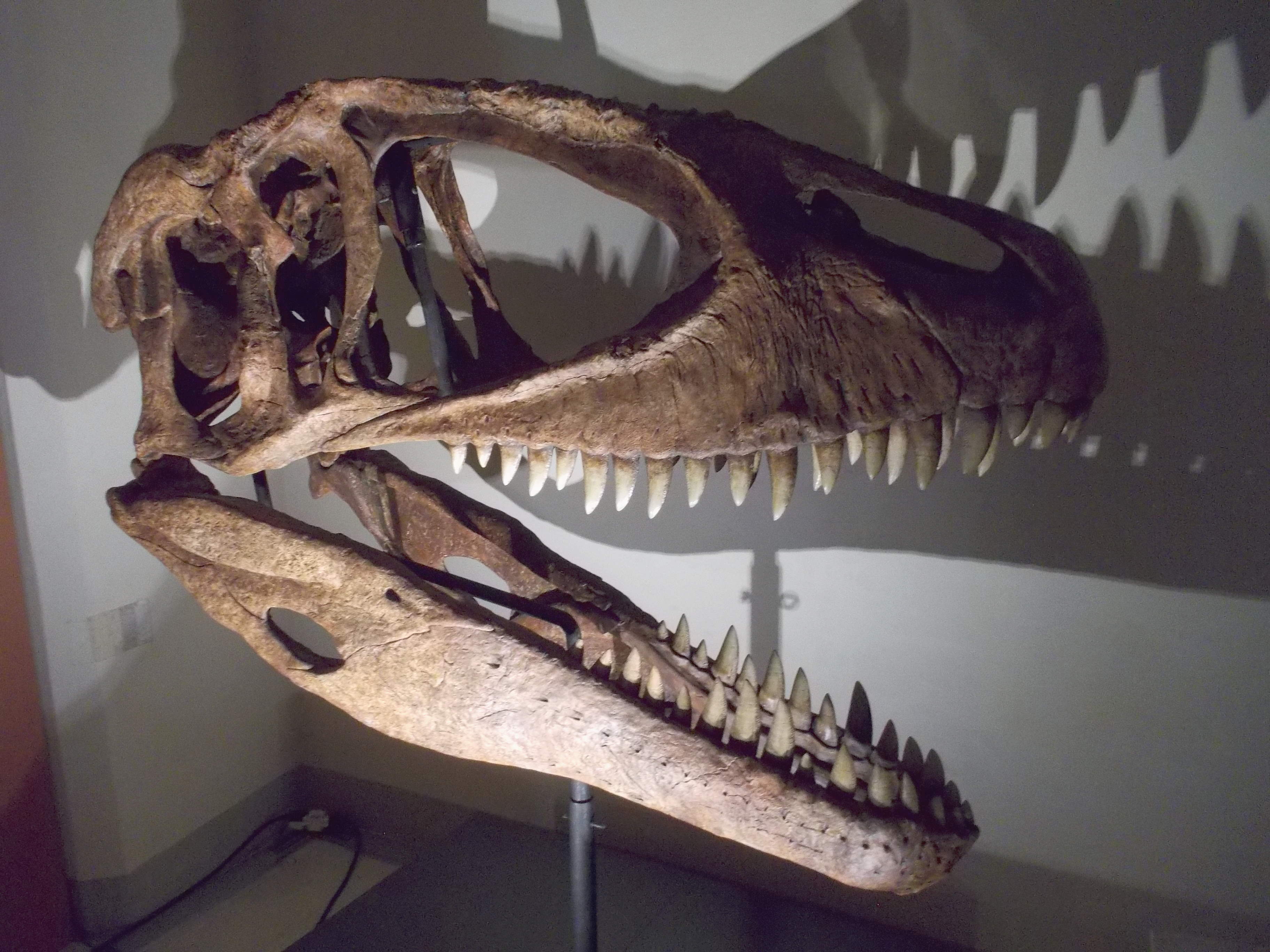 Skull of carcharodontosaurus